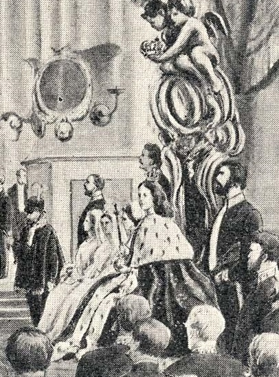 Queen Sofia of Sweden and Norway wears the Queen's Crown at her Swedish coronation